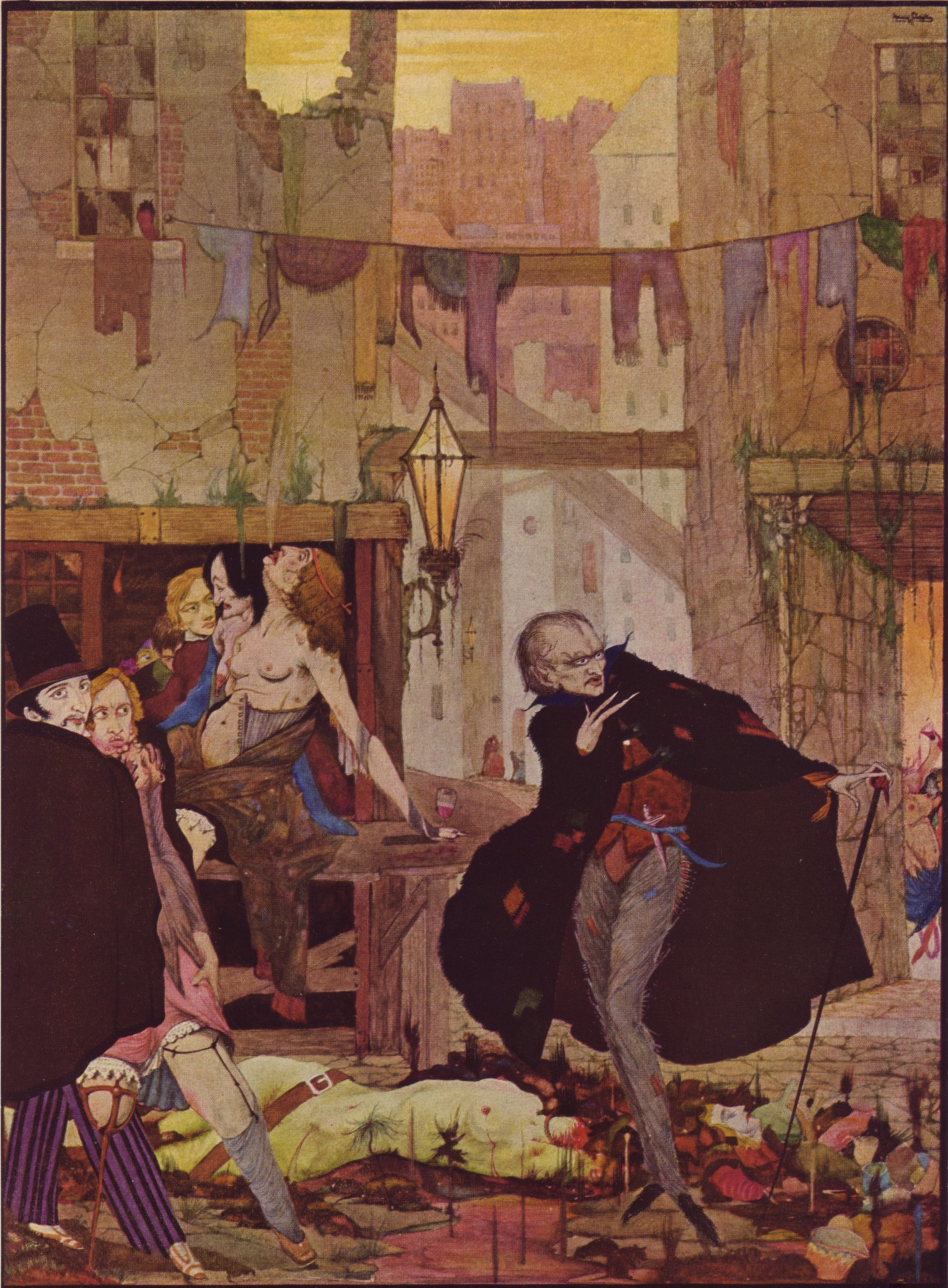 Illustration for Edgar Allan Poe's story "The Man of the Crowd" by Harry Clarke (1889-1931), first printed in 1923.